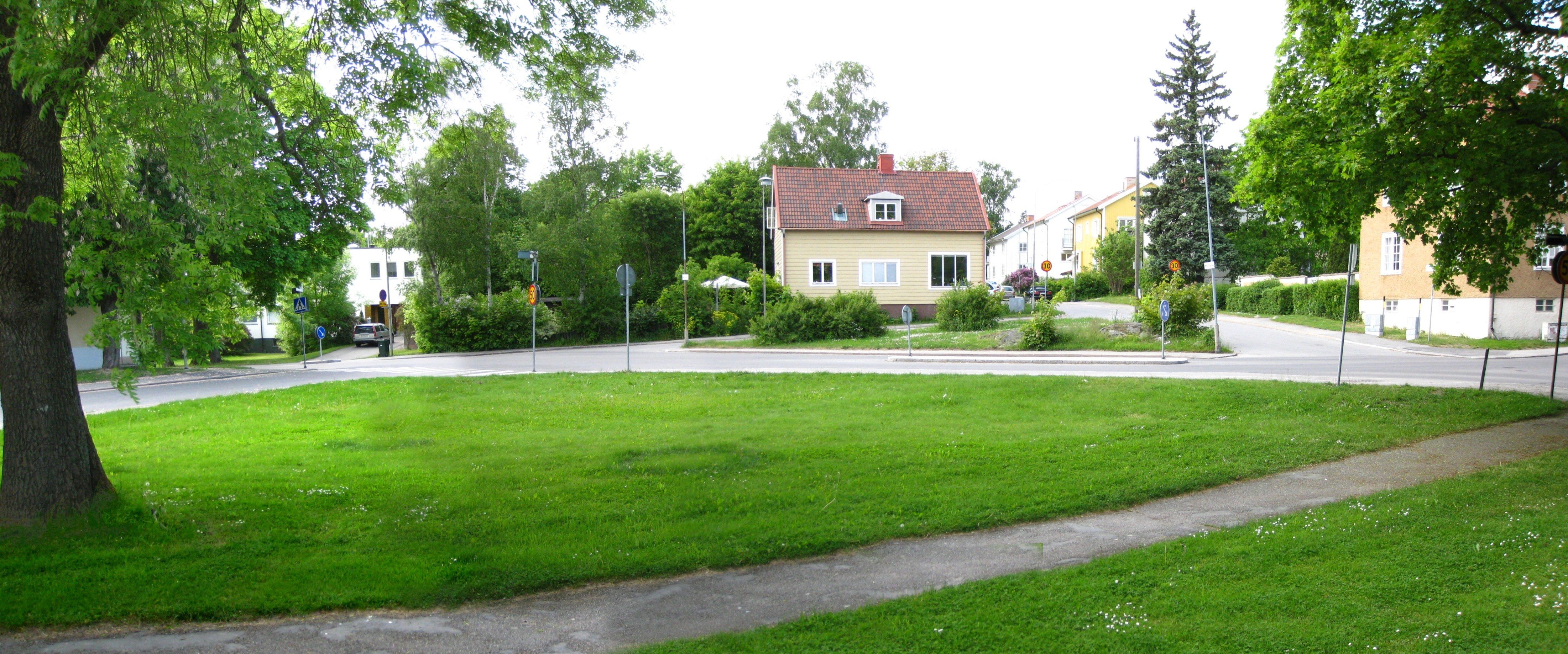 Mossplan, Stora Mossen, Bromma, western Stockholm, Sweden.